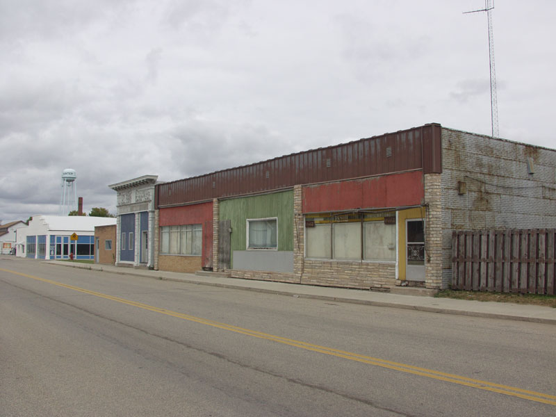 Hunter, North Dakota. From .